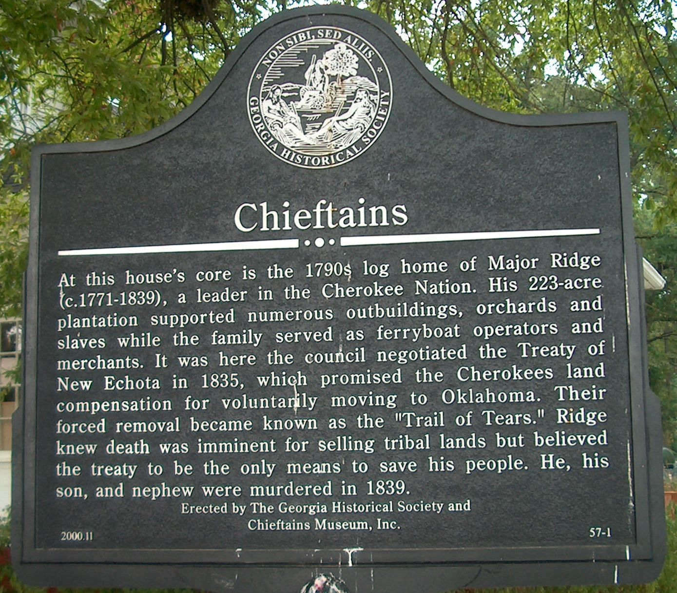 The marker described about Major Ridge's Chieftains